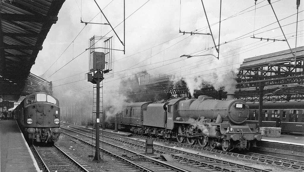 Crewe Station in transition. View northward on Platform 4, where English-Electric Type 4 Diesel No. D227 is heading the Up Midday Scot (13.30 Glasgow - Euston), while across at Platform 5 is LMS 'Jubilee' 6P 4-6-0 No. 45643 'Rodney' on the 16.50 Liverpool to Birmingham. Crewe station is wired up for the already electrified services to Manchester and Liverpool.